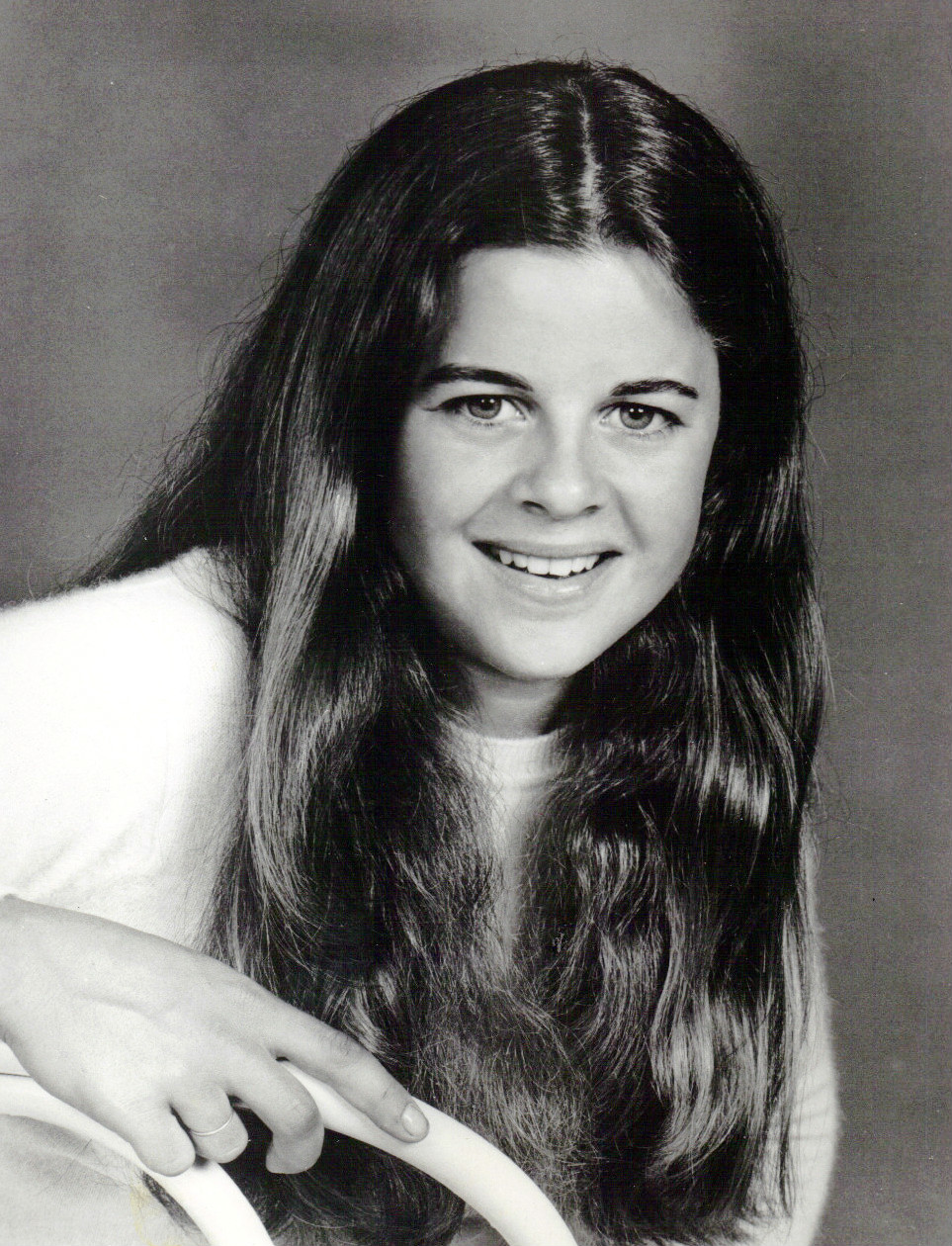 Photo of Lisa Gerritsen as Bess Lindstrom from the television program Phyllis. Gerritsen also played the same character on The Mary Tyler Moore Show before Phyllis was spun off as a separate show in 1975.